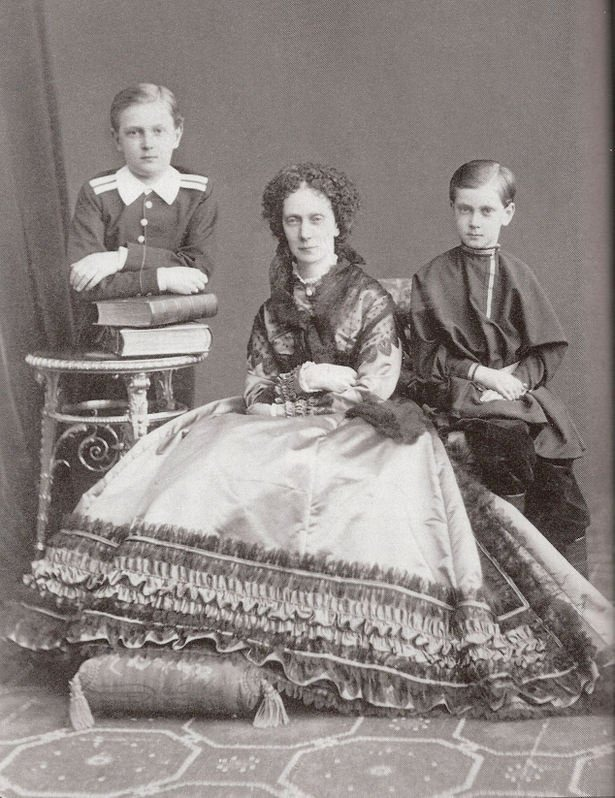 Tsarina Maria Alexandrovna (Maria of Hesse-Darmstadt) with her sons Paul and Sergei Alexandrovich.